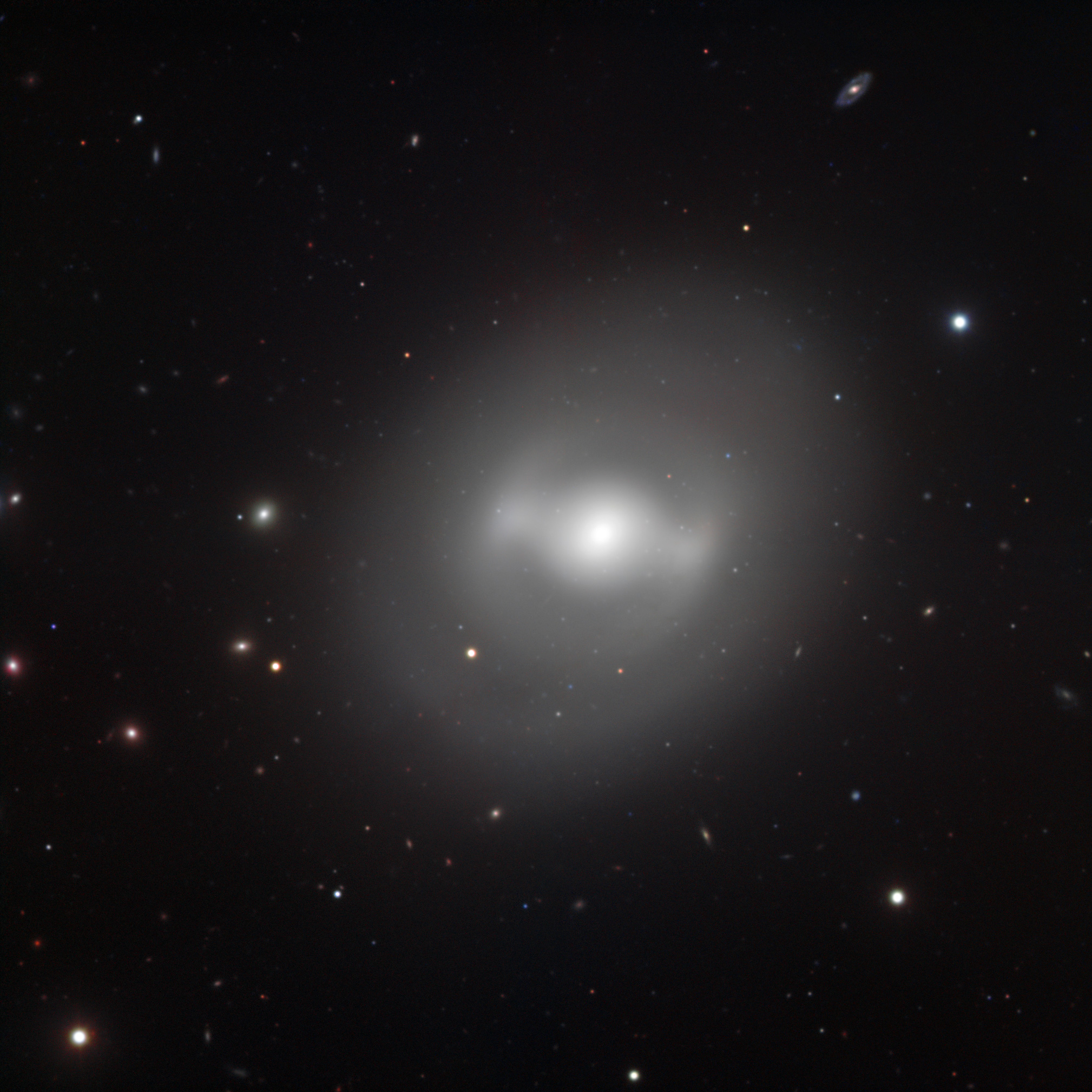 Glowing in the cosmos at a distance of about 50 million light-years away, the galaxy NGC 936 bears a striking resemblance to the Twin Ion Engine (TIE) starfighters used by the evil Dark Lord Darth Vader and his crew in the epic motion picture Star Wars. The galaxy’s shiny bulge and a bar-like structure crossing it bring to mind the central engine and cockpit of the spacecraft; while a ring of stars surrounding the galactic core completes the parallel, corresponding to the wings of the TIE fighters that are equipped with solar panels. This galaxy harbours exclusively old stars and shows no sign of any recent star formation. Bars such as that observed in NGC 936 are common features of galaxies; however, this one is significantly more marked than average. Although a perfect symbol for the dark side of the “Force”, it is still debatable whether this galaxy is dominated, like most others, by a large amount of dark matter. This image has been obtained using the FORS instrument mounted on one of the 8.2-metre telescopes of ESO’s Very Large Telescope on top of Cerro Paranal, Chile. It combines data acquired through four wide-band filters (B, V, R, I). The field of view is about 7 arcminutes. Credit: ESO Id: potw1009a Release Date: Mar 1, 2010, 10:00 CET Size: 2018 x 2018 px